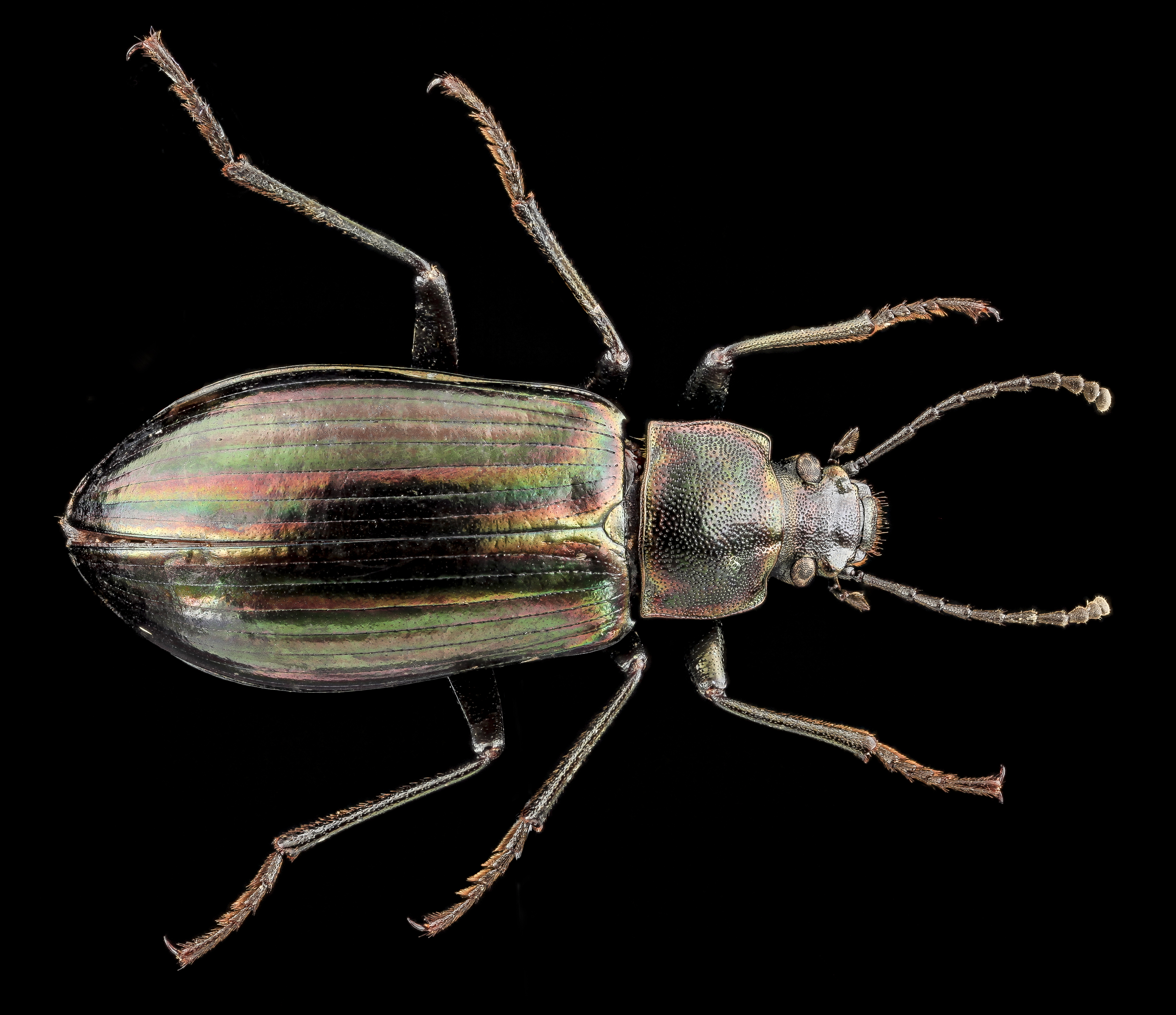 Collected , in Glycol trap, Tarpela micans, with lovely oil can sheen, identified by Warren Steiner